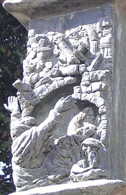 The Knesset Menorah, Jerusalem (detail - Left side of the Menorah)